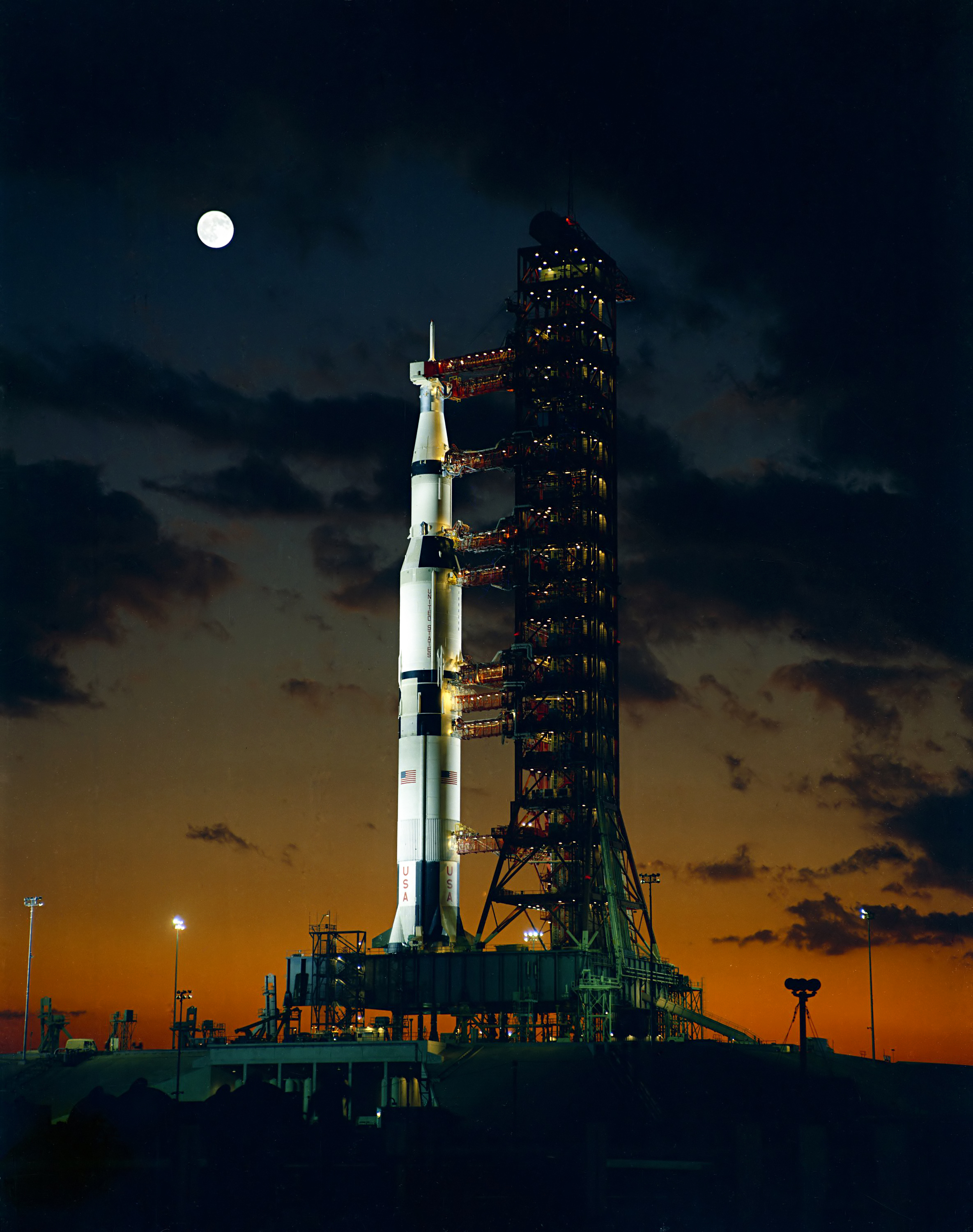 Early morning view on November 9, 1967 of Pad A, Launch Complex 39, Kennedy Space Center, showing Apollo 4 Saturn V (Spacecraft 017/Saturn 501) prior to launch later that day. This was the first launch of the Saturn V.